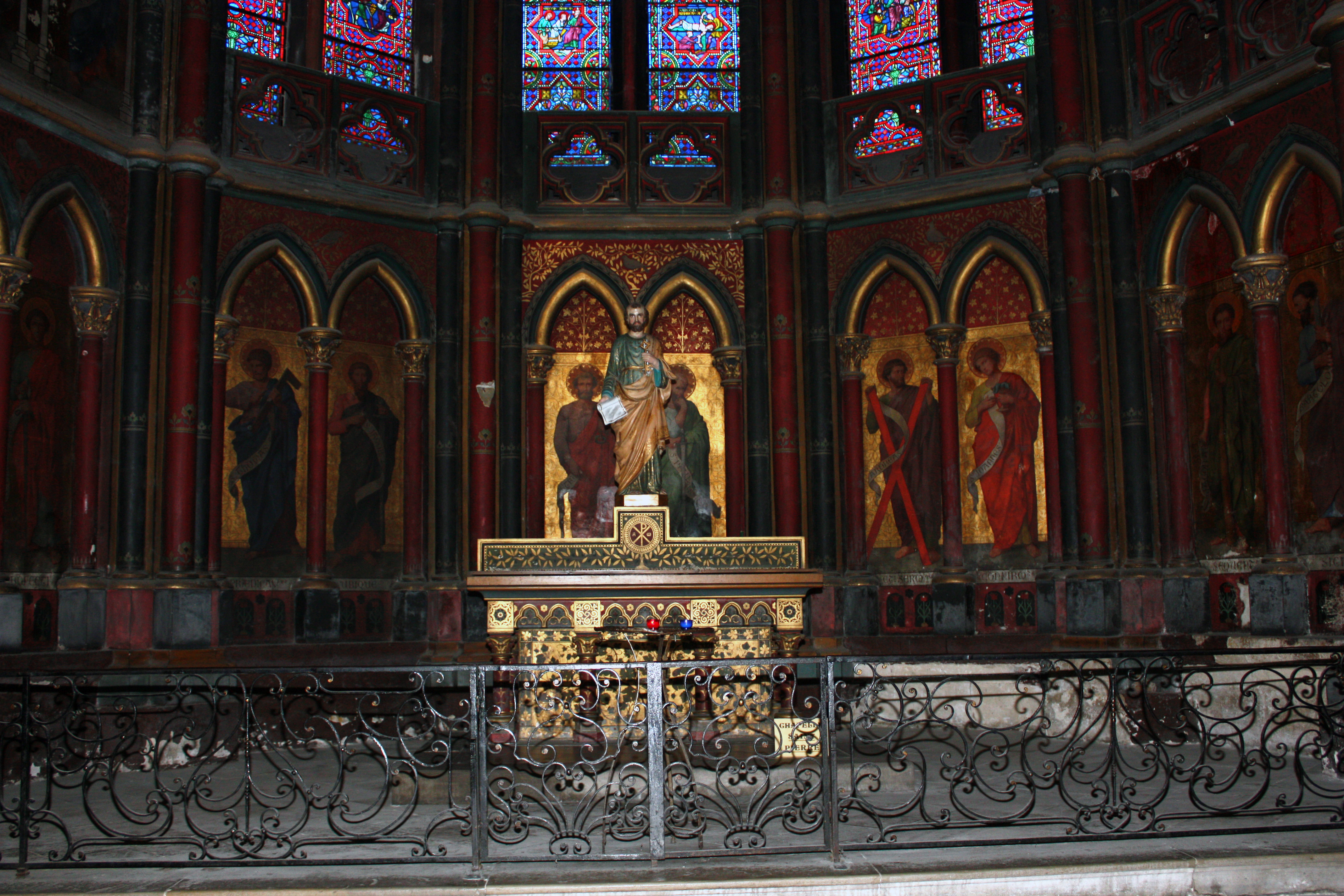 St. Peter's chapel.